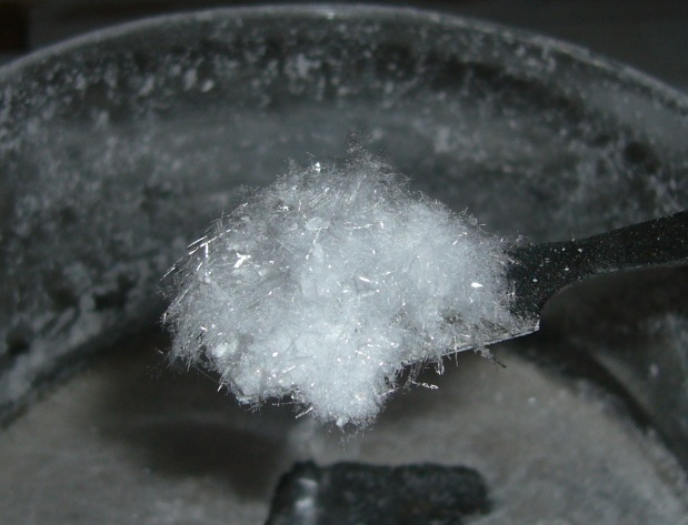 Crystals of pure benzoic acid, recrystallized from acetone.